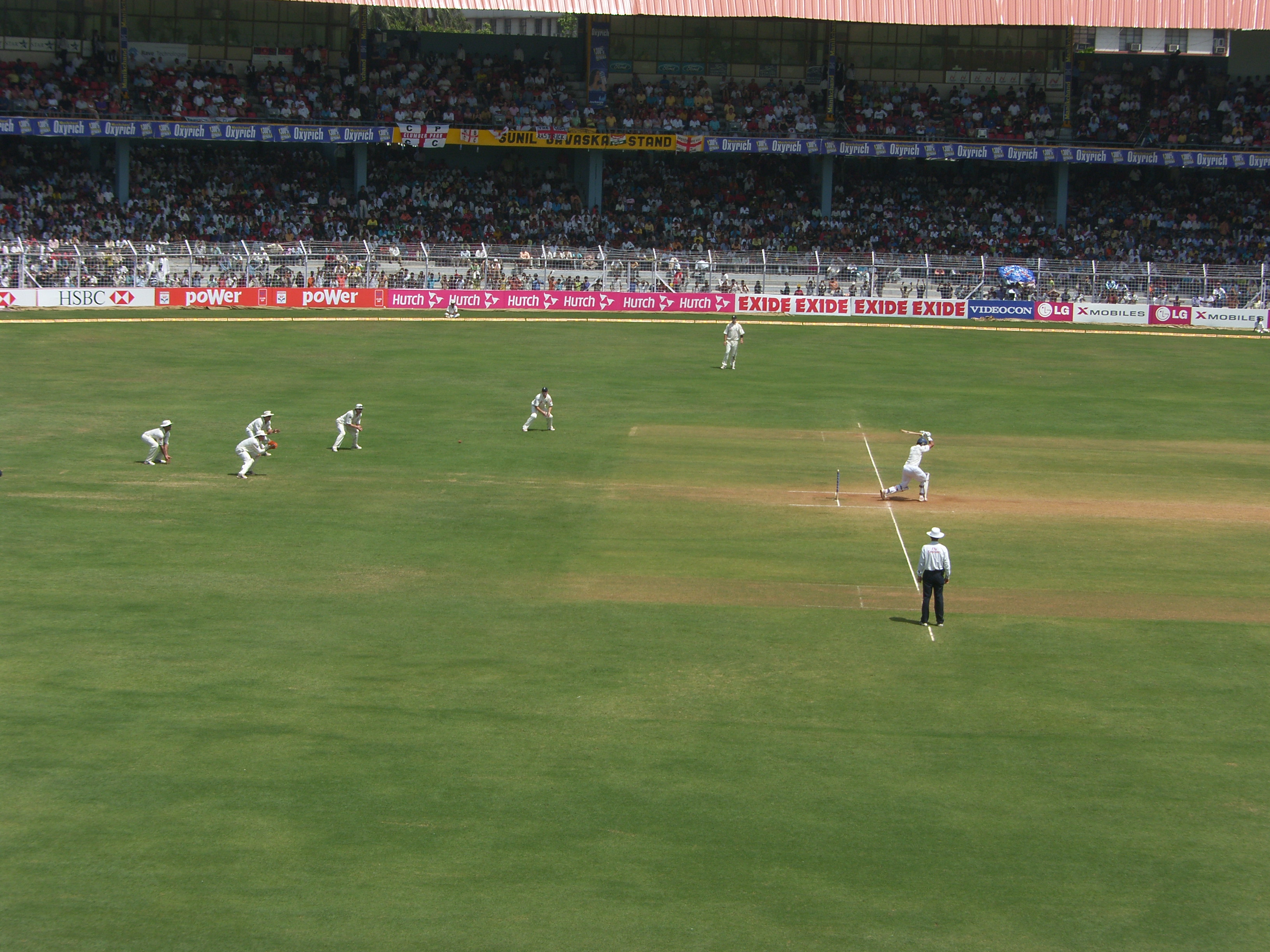 England tour of India, 3rd Test: India v England at Mumbai, Mar 18-22, 2006